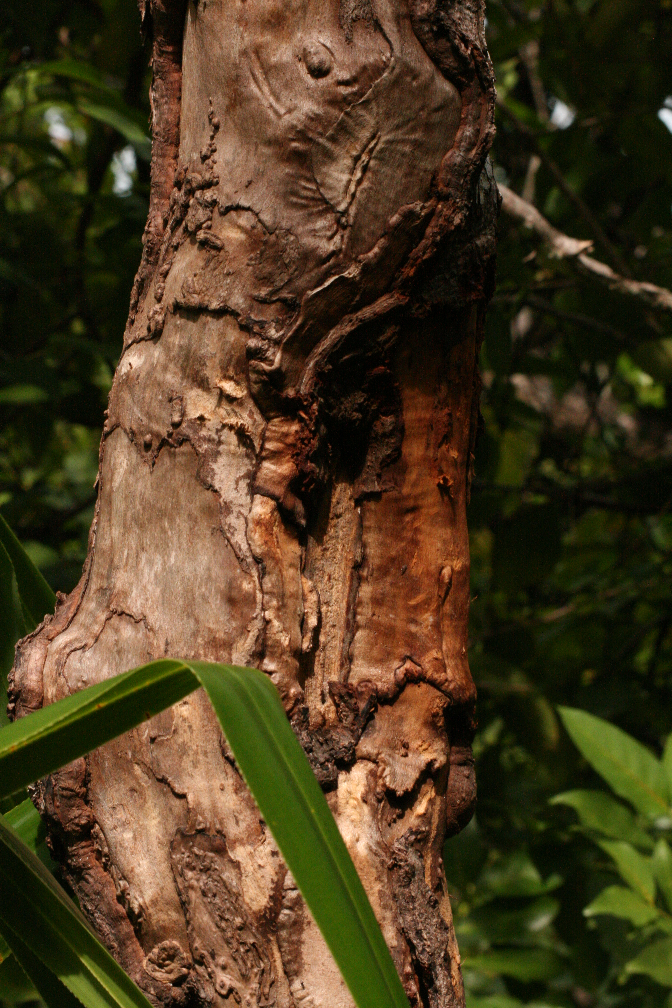 Cinnamomum verum in Curieuse Island, Seychelles